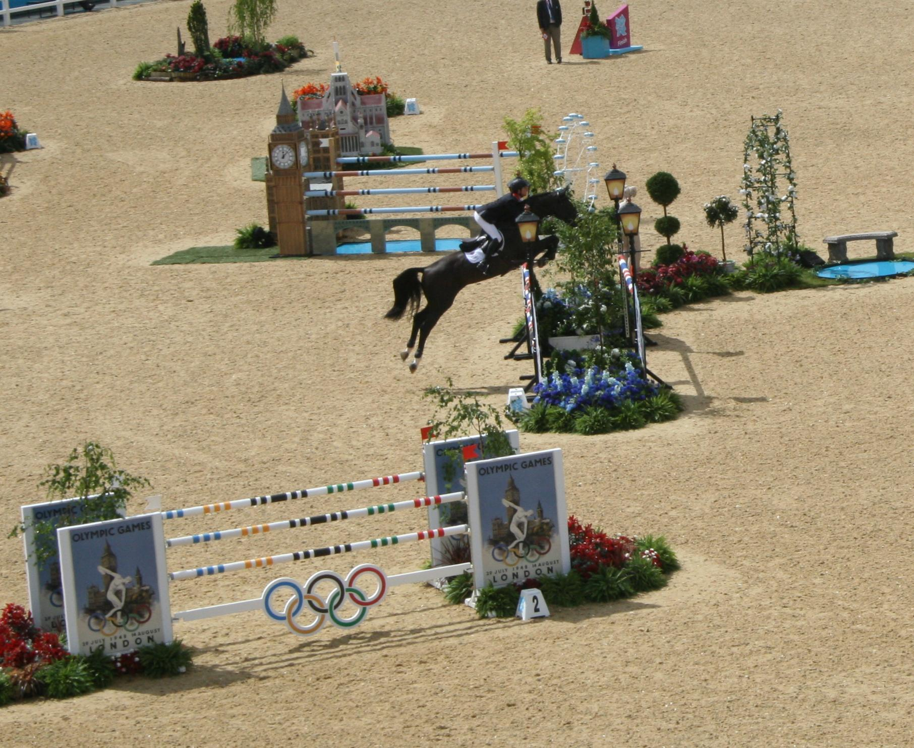 Impression of the 2012 Olympic Show jumping competition